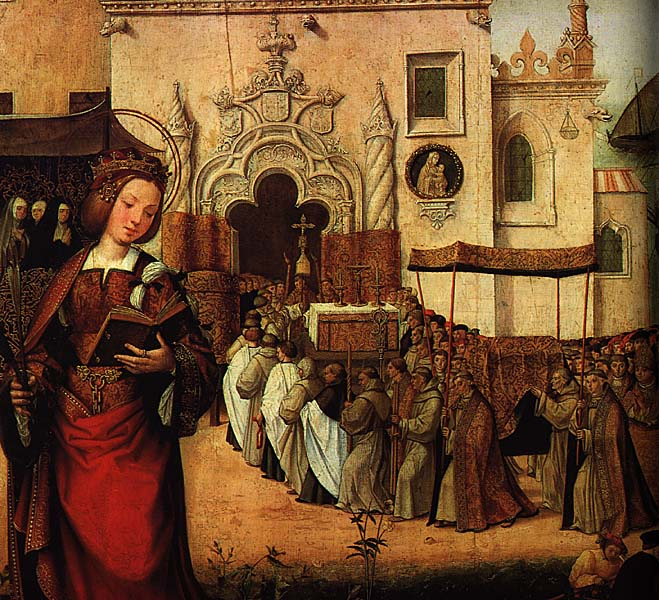 Arrival at Queen Leonor of Aviz's Madre de Deus Convent in Xabregas, Lisbon, of Saint Auta'relics offered to her by her cousin emperor Maximilian I, c. 1518-1520, by Cristóvão de Figueiredo. The Queen is shown in adoration in the stage.